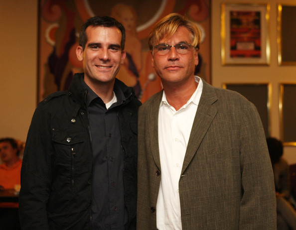 Aaron Sorkin at a Generation Obama event, standing with Eric Garcetti, an elected member of the Los Angeles City Council, on 20 August 2008.